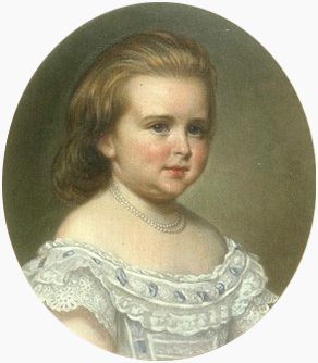 Princess Alix of Hesse, later Alexandra Feodorovna, Tsarina Nicholas II of Russia (1872-1918) when a Child The son of two well-known Viennese actors, Koberwein studied painting in Paris with Paul Delaroche (1797-1856); he worked in various European capitals before setting in London in 1859. He experimented with processes for colouring photographs and his painted portraiture was greatly influenced by photography. Queen Victoria described Koberwein as ‘such a useful good artist & pleasant person’.